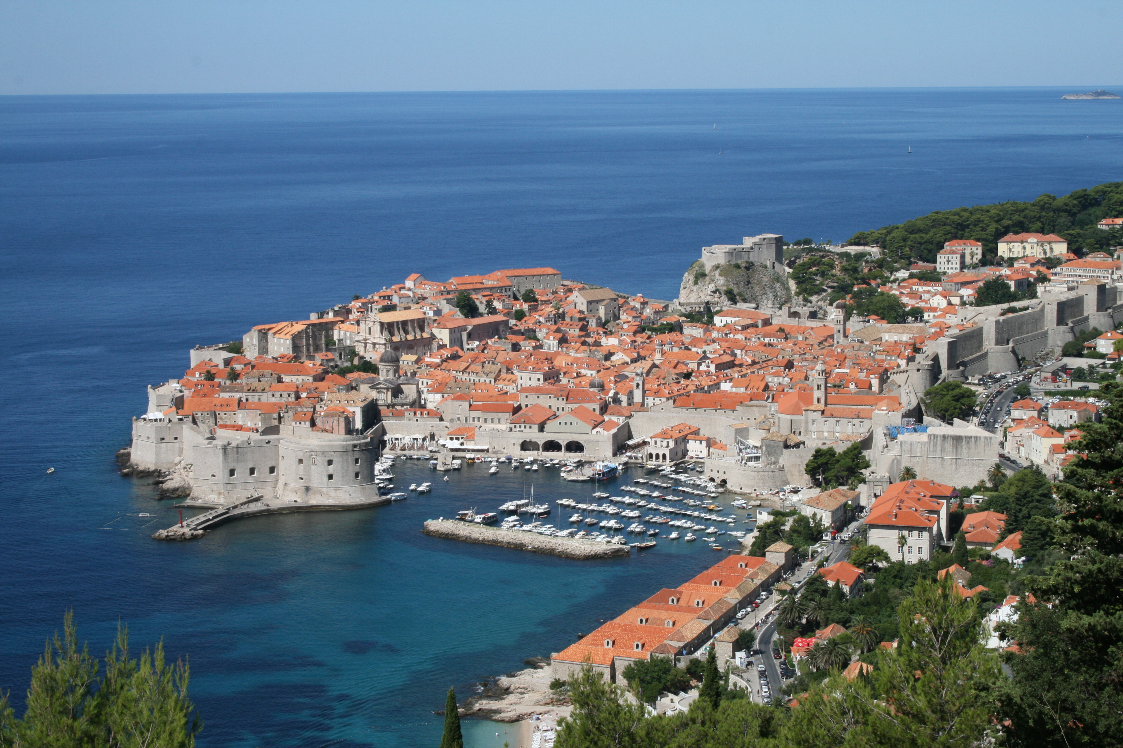 Dubrovnik.